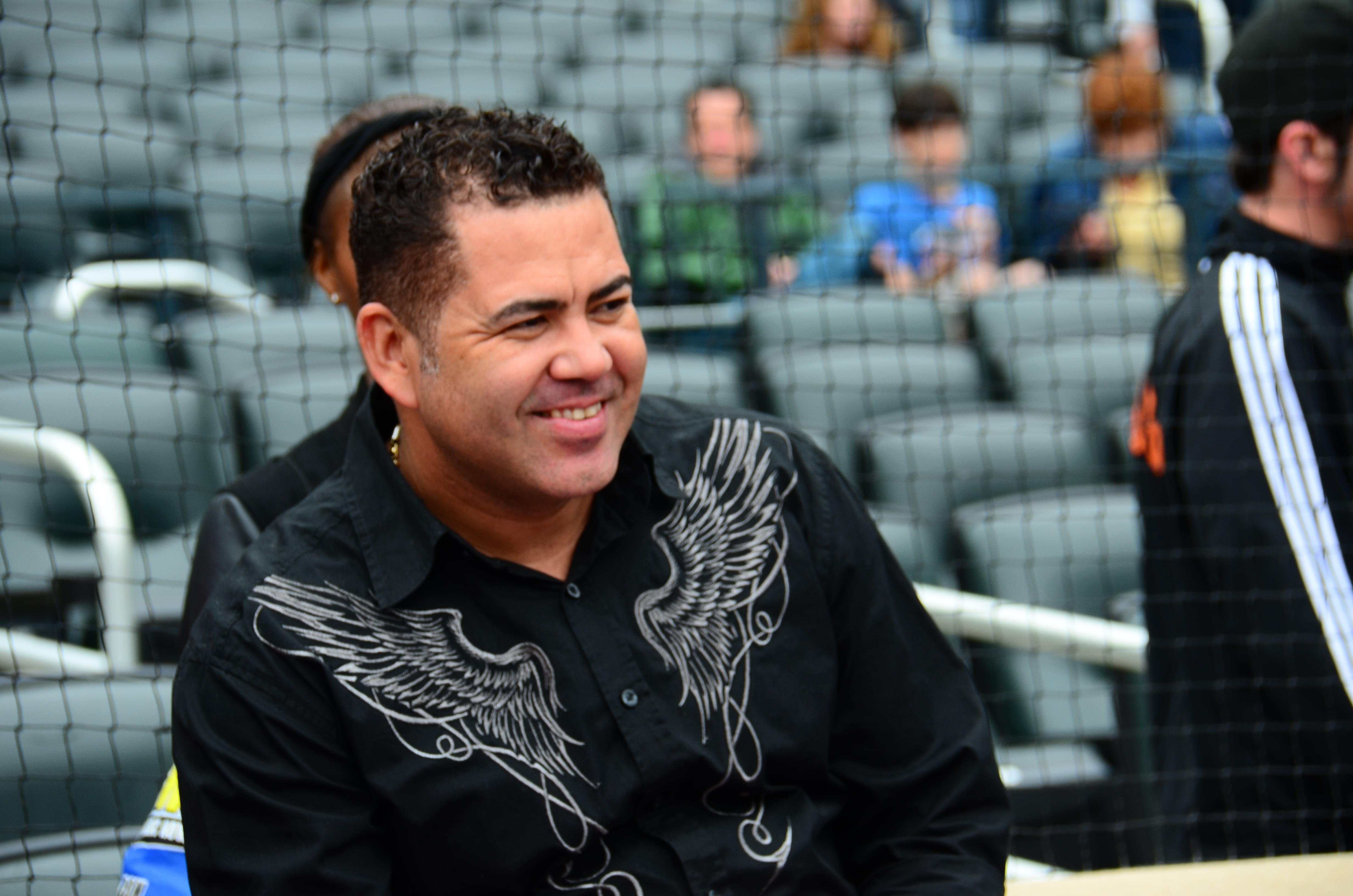 Edgardo Alfonzo at Citi Field, judging banners for the Mets on Banner Day